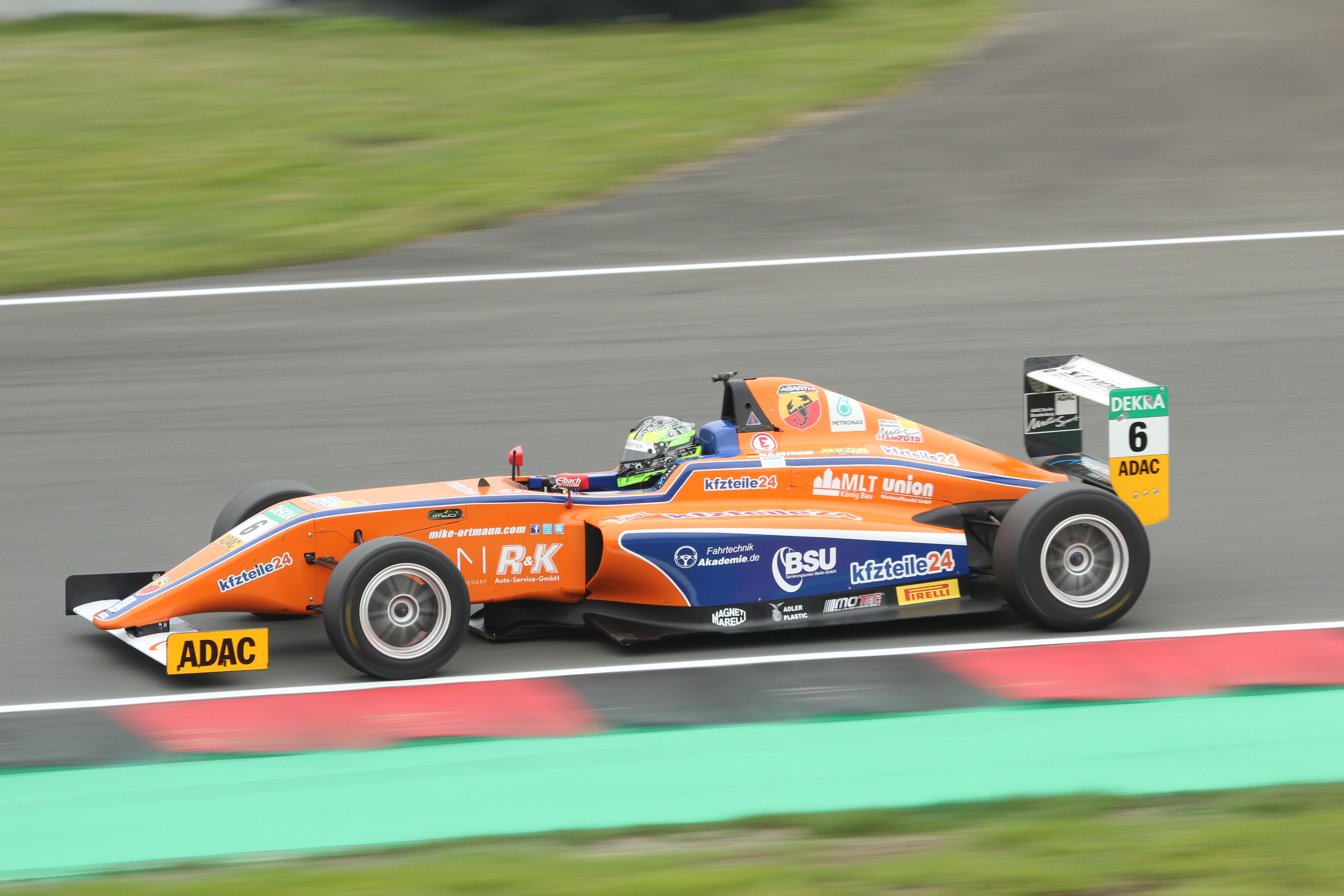 Mike David Ortmann at Oschersleben in 2015, German Formula 4 Championship